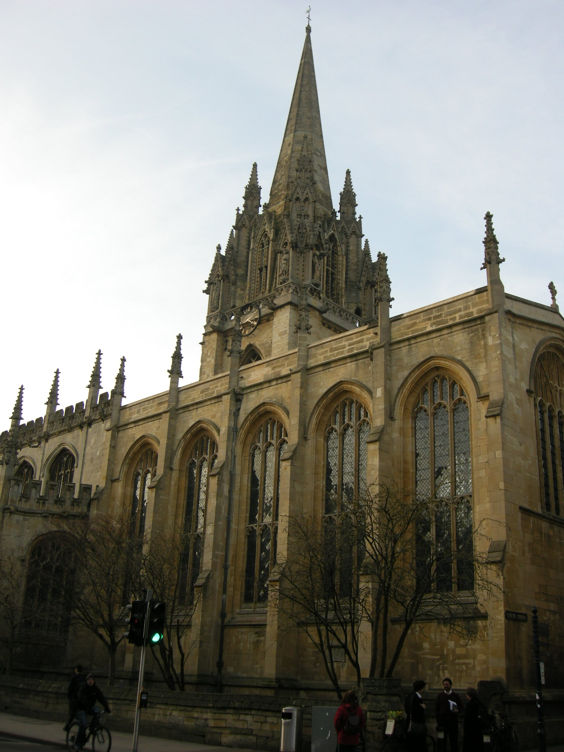 Oxford, chiesa di st mary the virgin